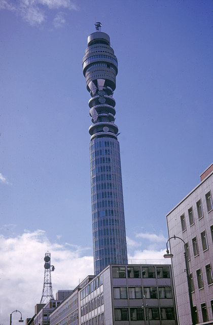 Telecom Tower, London taken 1966